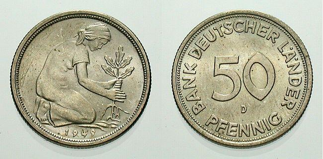 German 50 pfennig (1/100 of a mark).